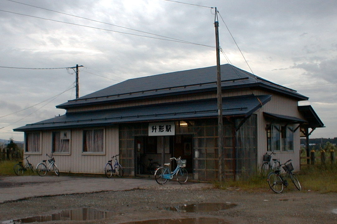 Masukata Station on West Rikuu Line, in Shinjo City, Yamagata Prefecture, Japan